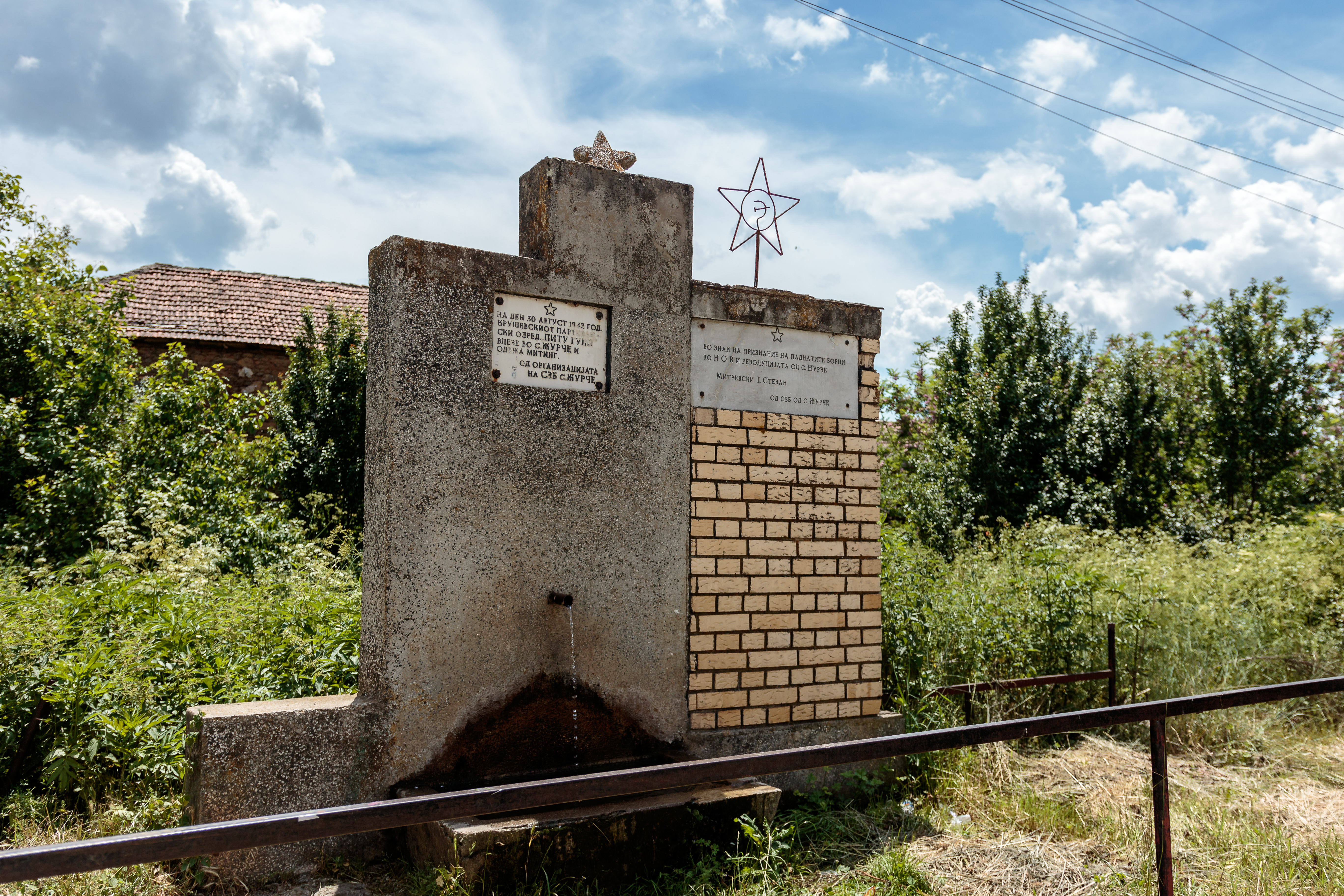 Monument in the village Žurče